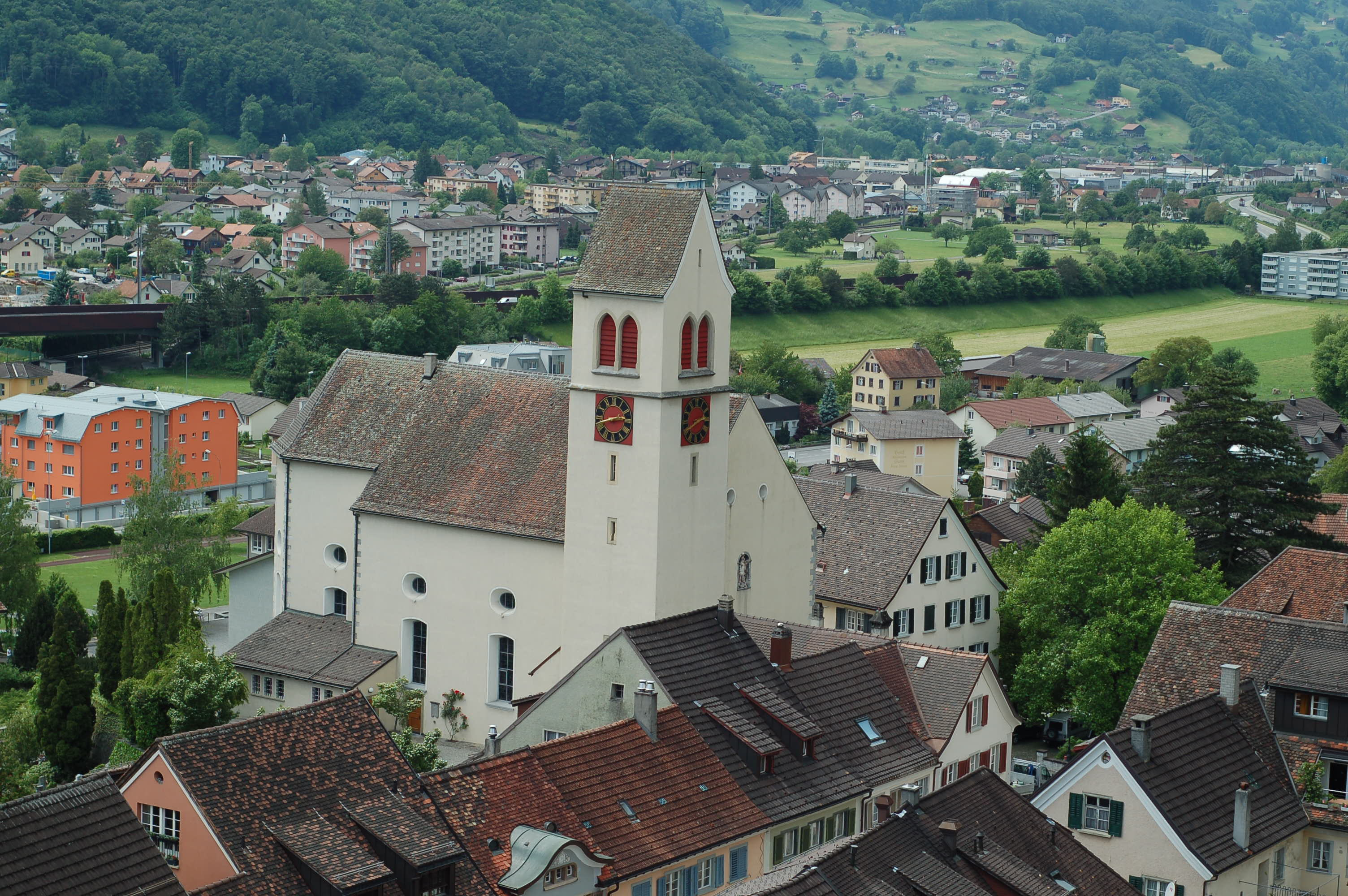 View from the castle of Sargans